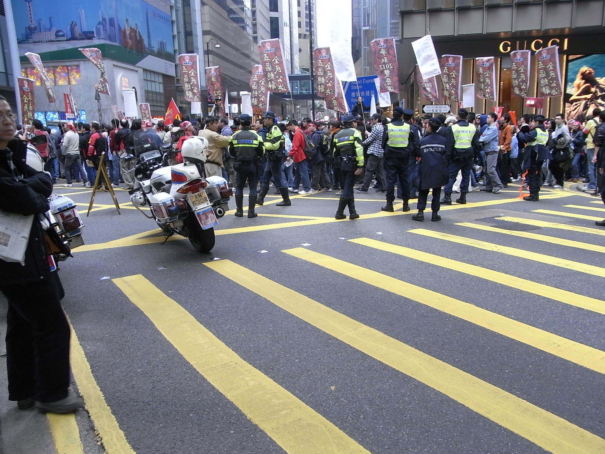 2010年-示威-推動五區總辭